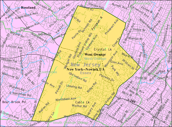 Census Bureau map of West Orange